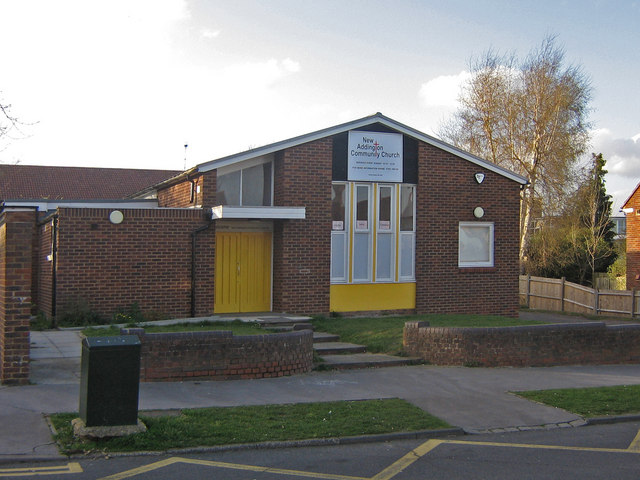 Wolsey Chapel,a 1980s church plant in this ex council estate Dunley Drive. This chapel houses the Croydon Jubilee Church Addington Congregation which is partnered with the Selsdon congregation.